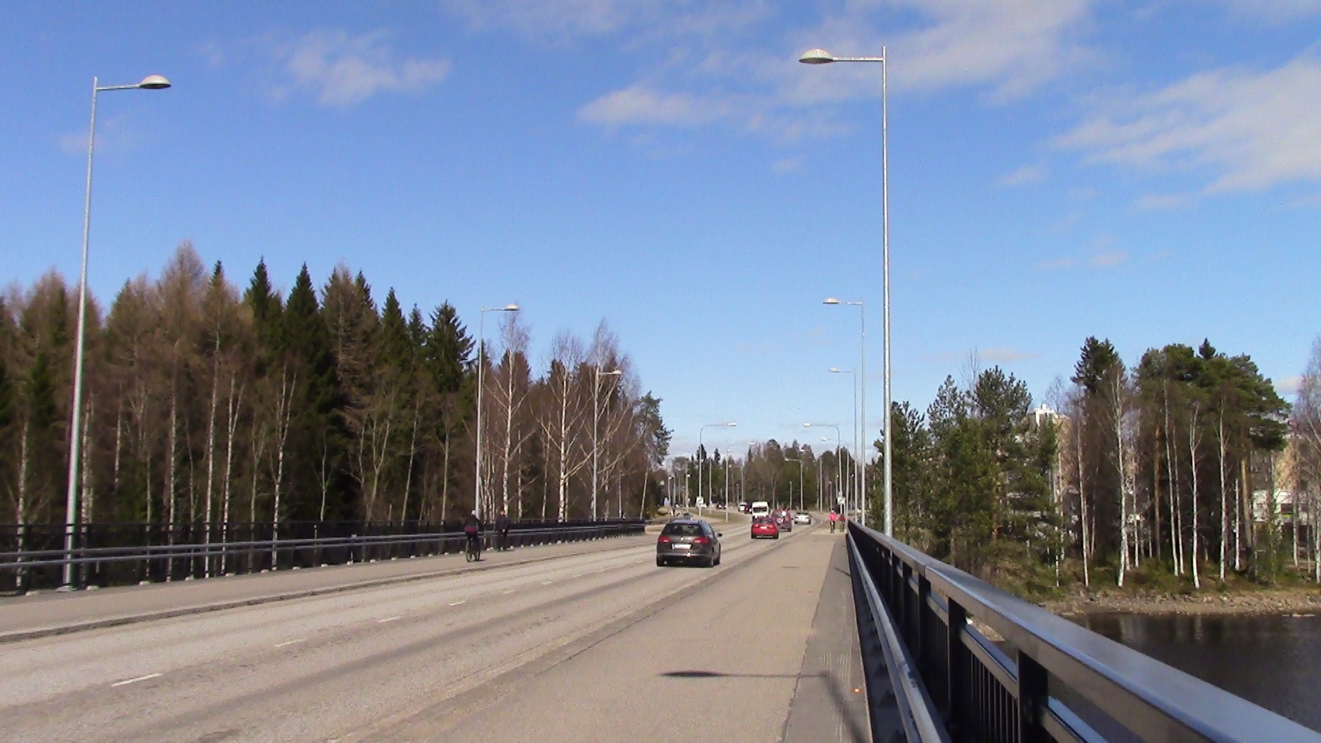 Finnish connecting road 8807 at bridge crossing Sipinen flow in Kajaani. The road runs from Lohtaja to Kuluntalahti.